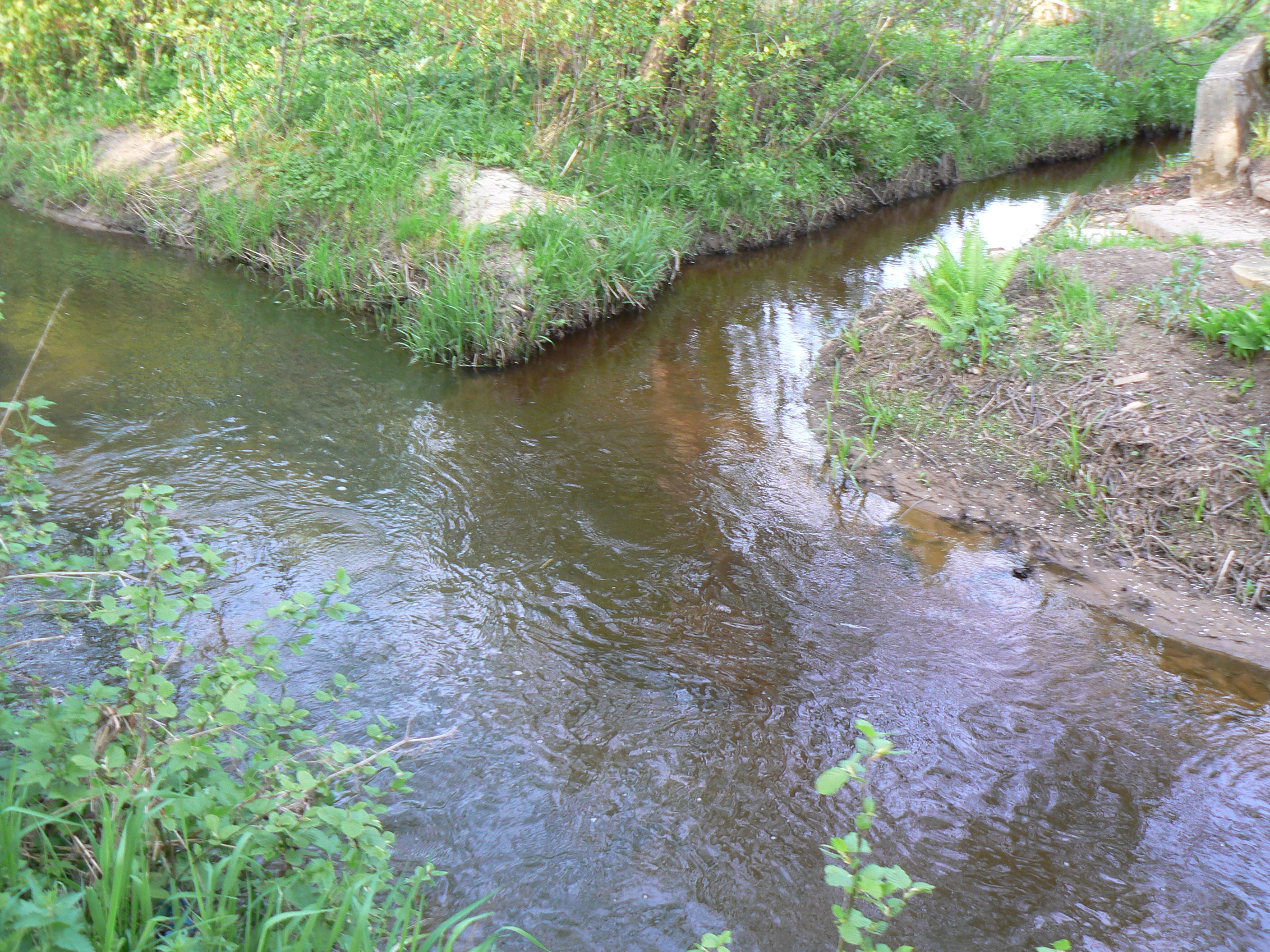 Confluence Smaltalė x Tolupis Česky: Soutok Smeltalė s Tolupisem (vpravo) levý přítok.